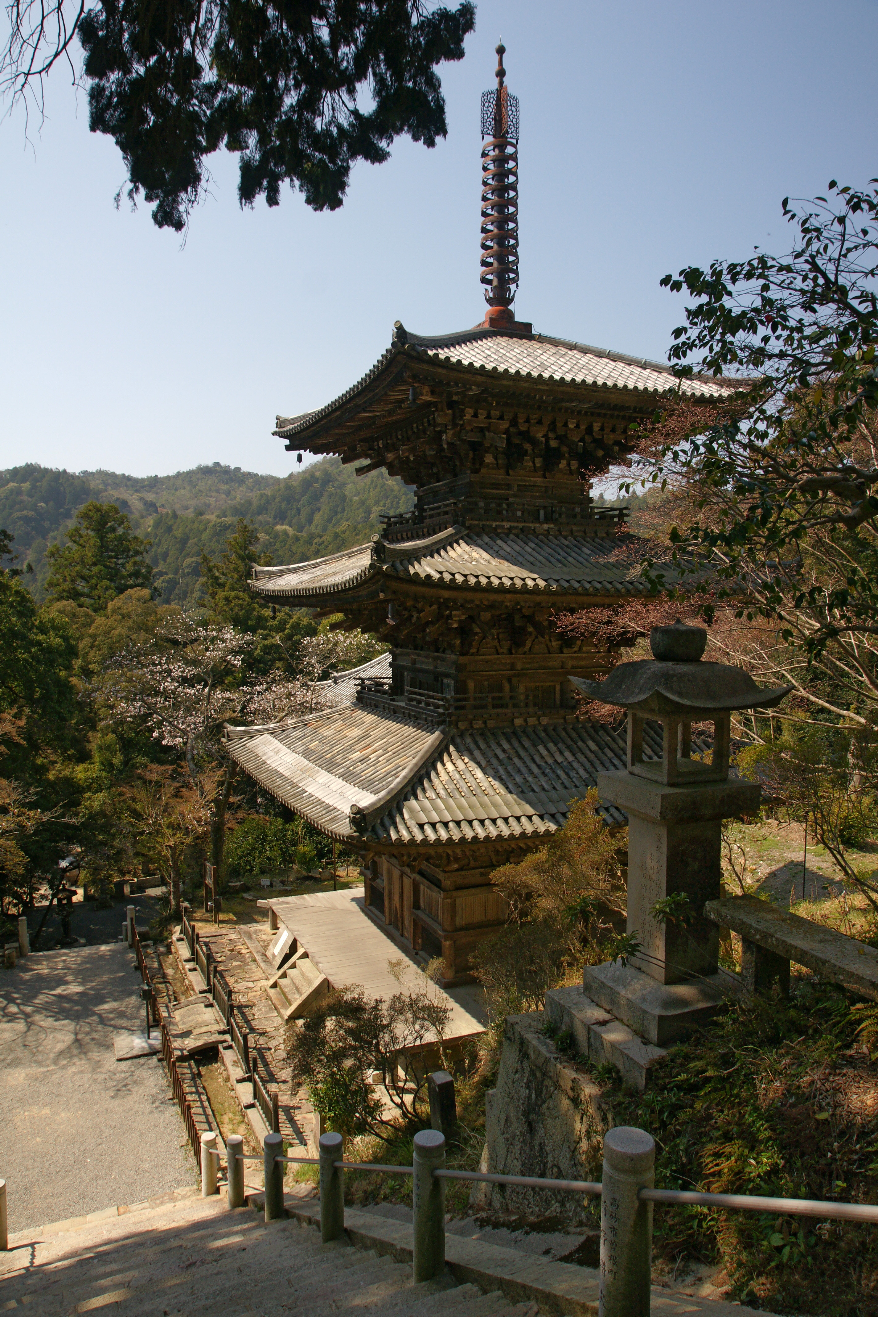 Pagoda of Ichijō-ji Buddhist temple (Japan's National Treasure), Kasai, Hyogo prefecture, Japan. This architecture in wayō (和様, "Japanese") that is Japanese original design. It was built in 1171.